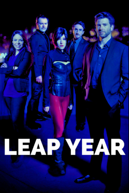 This is a promotional poster image for the tv series, Leap Year (2012)